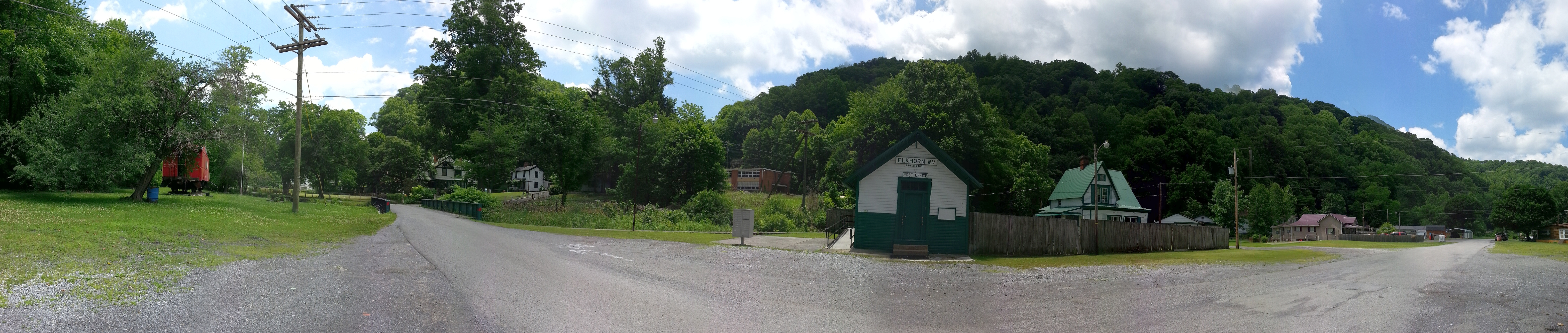 Elkhorn, West Virginia. Visible beyond the bridge is the John J. Lincoln House.